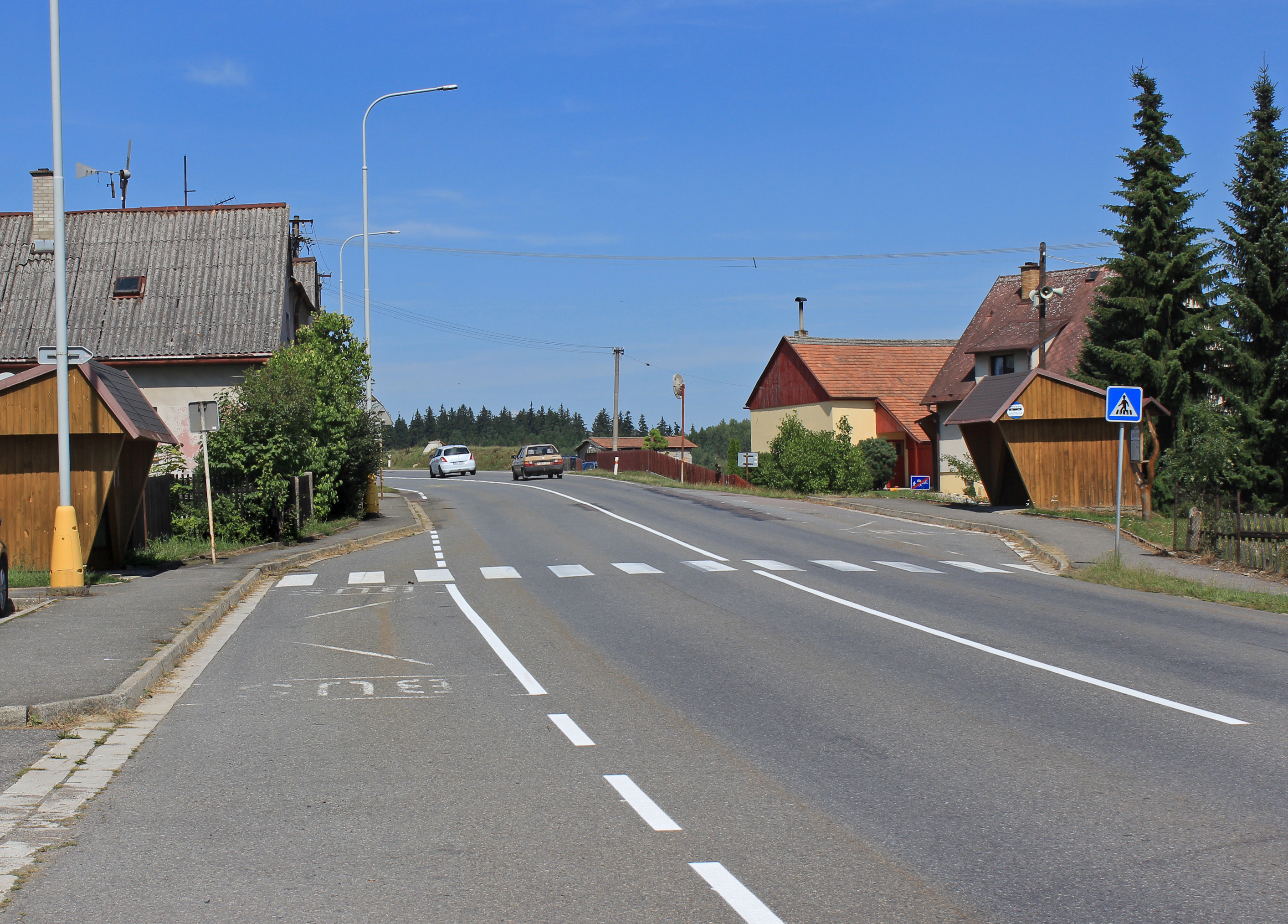 Road No 366 in Javorník, Czech Republic.